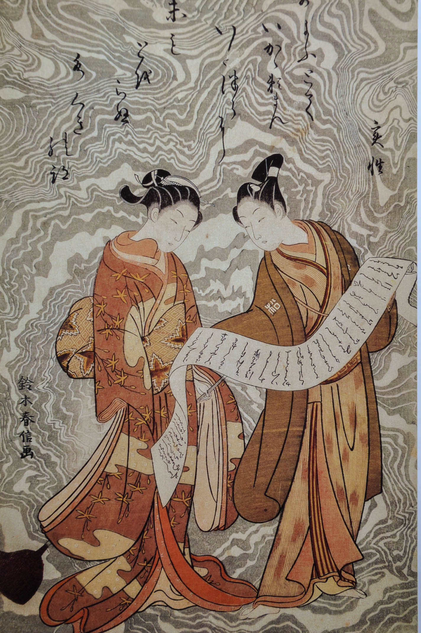 Woodcut print by Suzuki Harunobu : egoyomi, aiban size, showing a mitate (parody) of Kanzan and Jittoku, the well known Chinese Buddhist monks (Jittoku is easily recognized, as he always holds a broomstick).